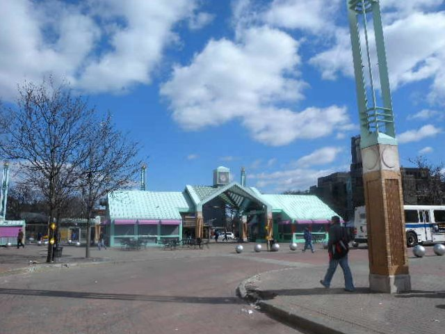 Looking north at Fordham Road bus station from near Park Avenue on a mostly sunny morning.